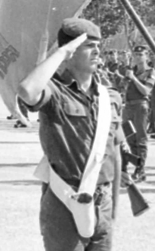 Graduation ceremony of IDF Junior Command Preparatory Boarding School include military parade in the presence of PM Golda Meir, Defense Minister Moshe Dayan and families.